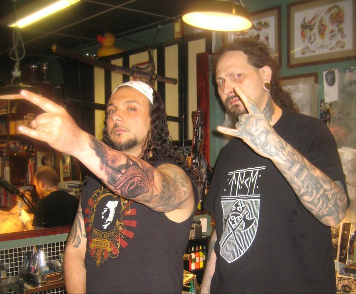 tattoo